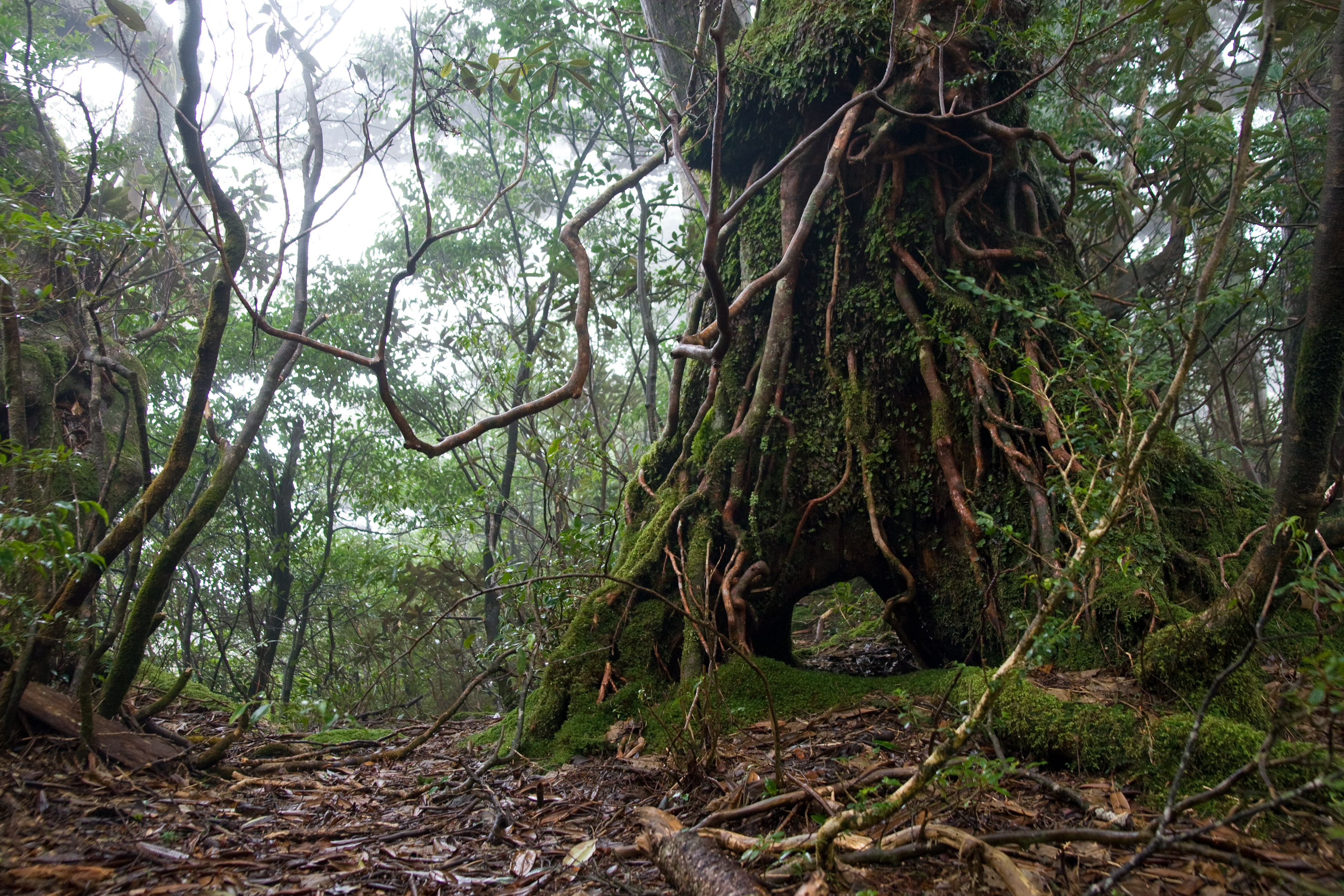 The forest in Yakushima, Kagoshima Pref., Japan.